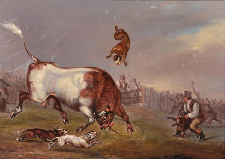 Circle of James Ward (1769-1859) British. A Bull-baiting Scene (Bulldogs and bull), Oil on Panel. Attributed to Edmund Bristow